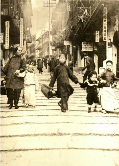 Pottinger Street in 1890